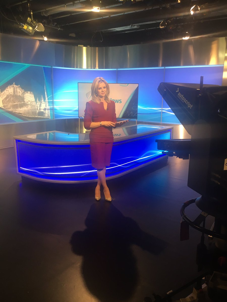 STV presenter Kelly-Ann Woodland presenting the STV news at 6 live from Edinburgh.